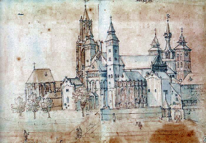 Maastricht, the Netherlands. View of Vrijthof square with the churches of Saint John and Saint Servatius. Drawing by Remigio Cantagallina, 1612, in the collections of the Royal Museums of Fine Arts in Brussels.